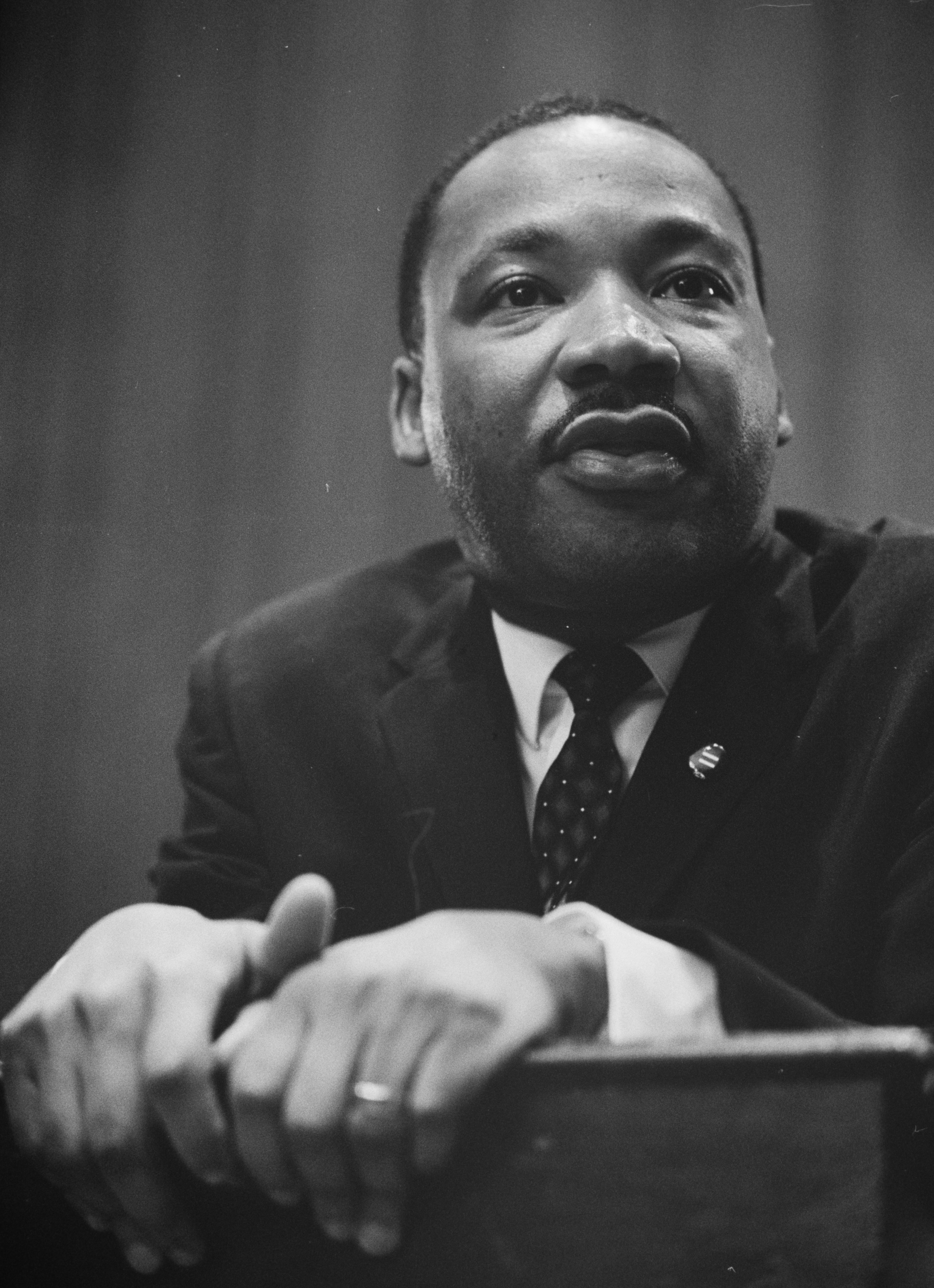 Martin Luther King leaning on a lectern.